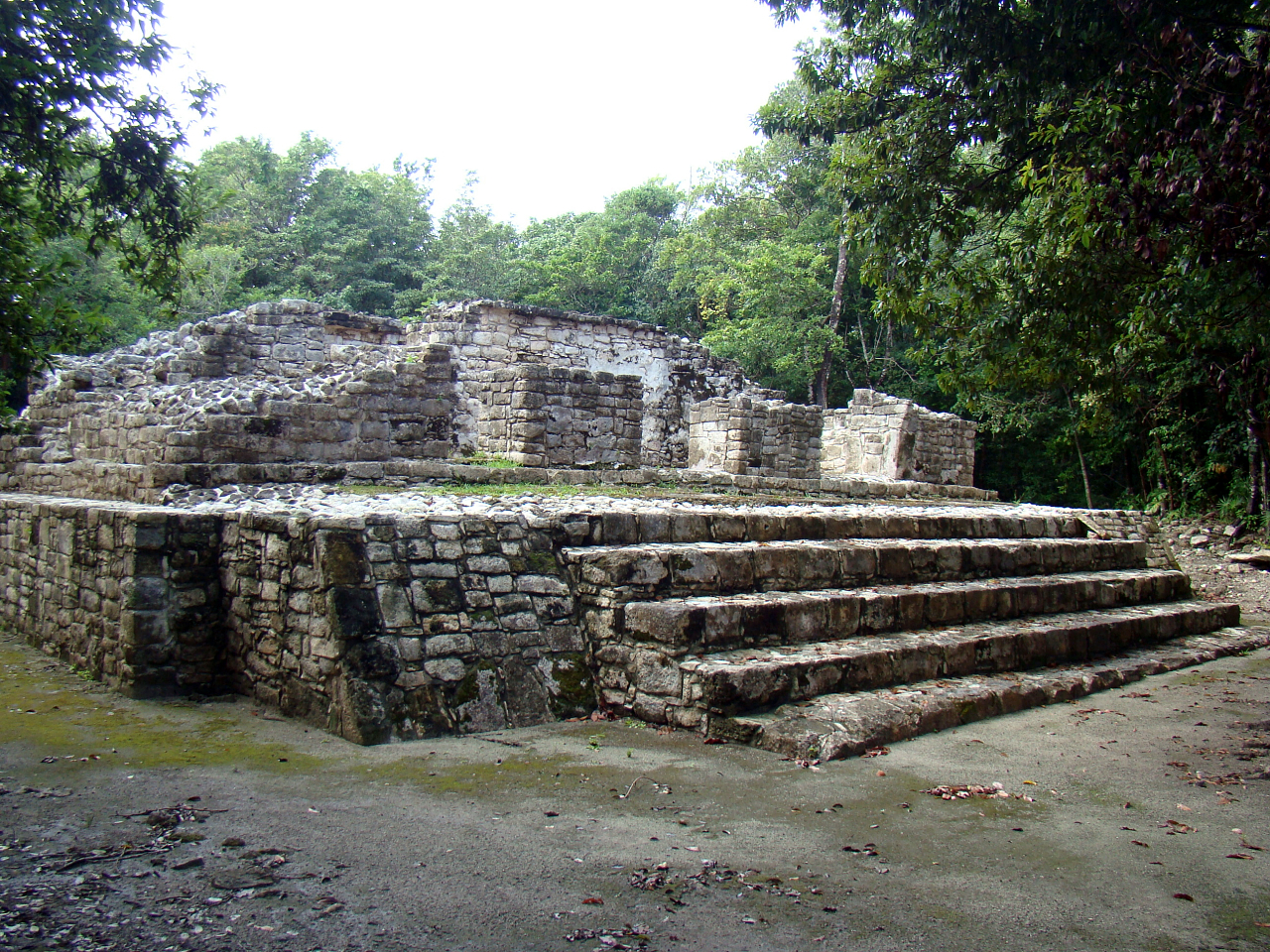 "Palace" in Xelha. Northern entrance